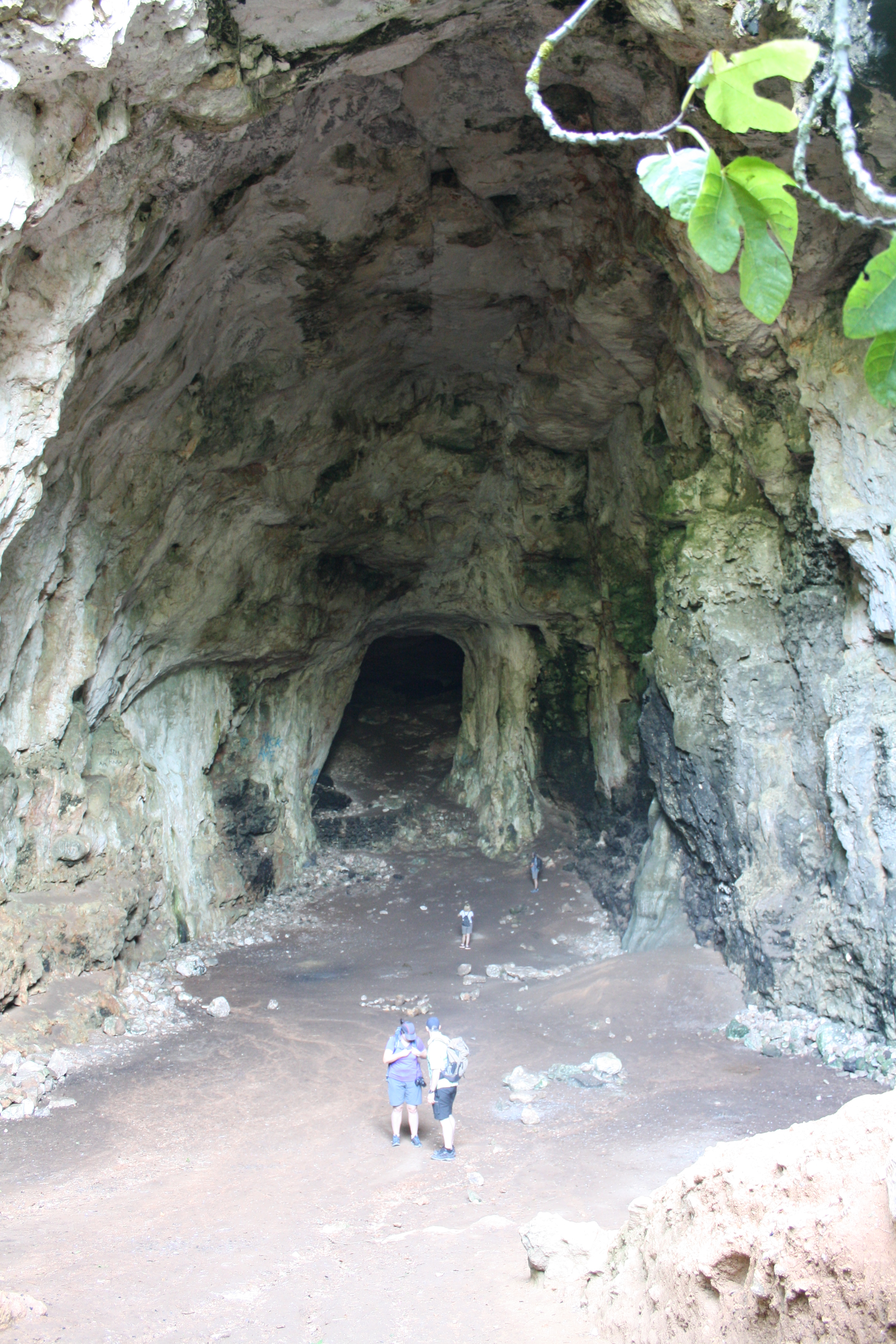 Natural cave Cova des Coloms, es Migjorn Gran, Minorca.